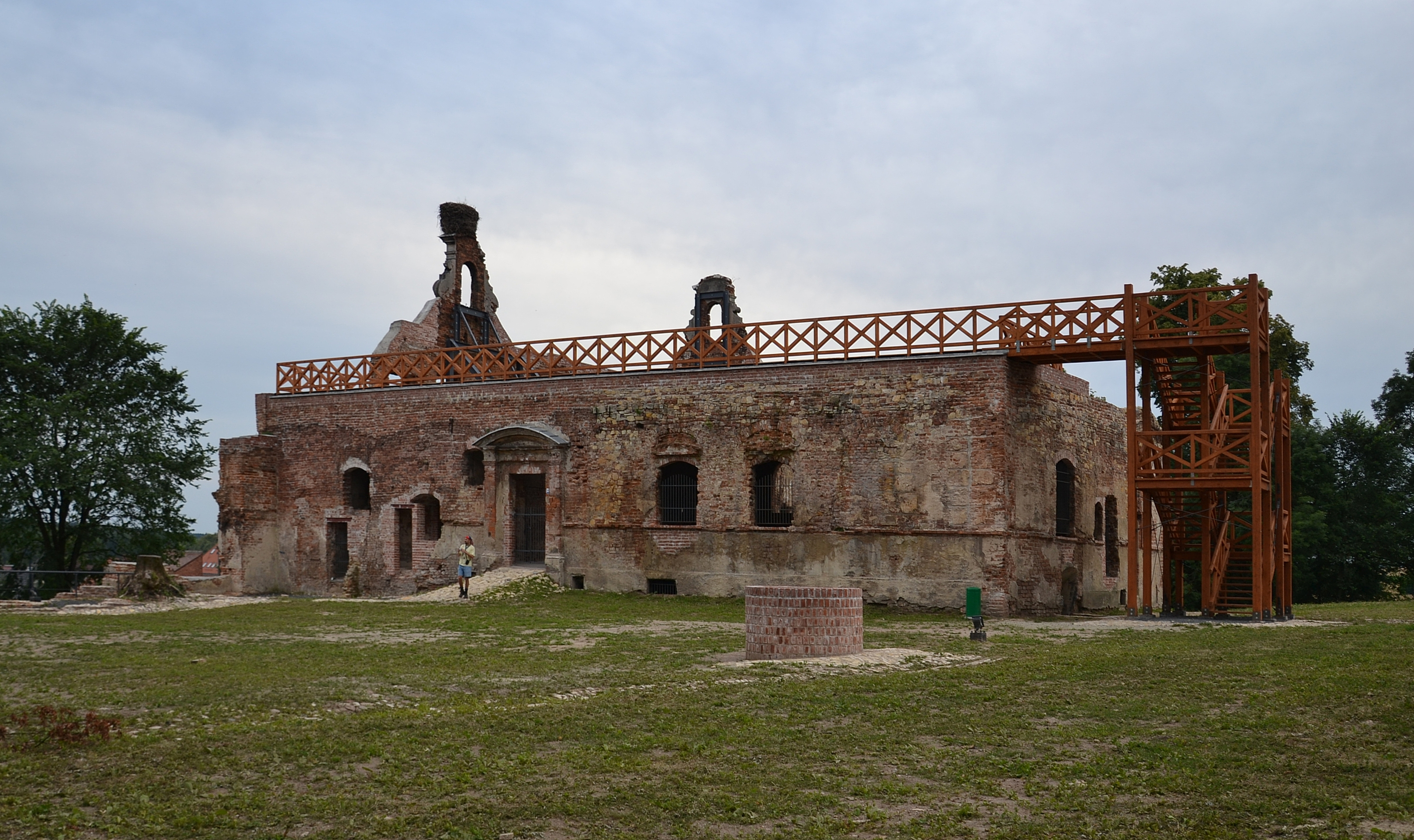 Ujazd (Ujest, Bischofstal) , Upper Silesia. Ruins of the castle